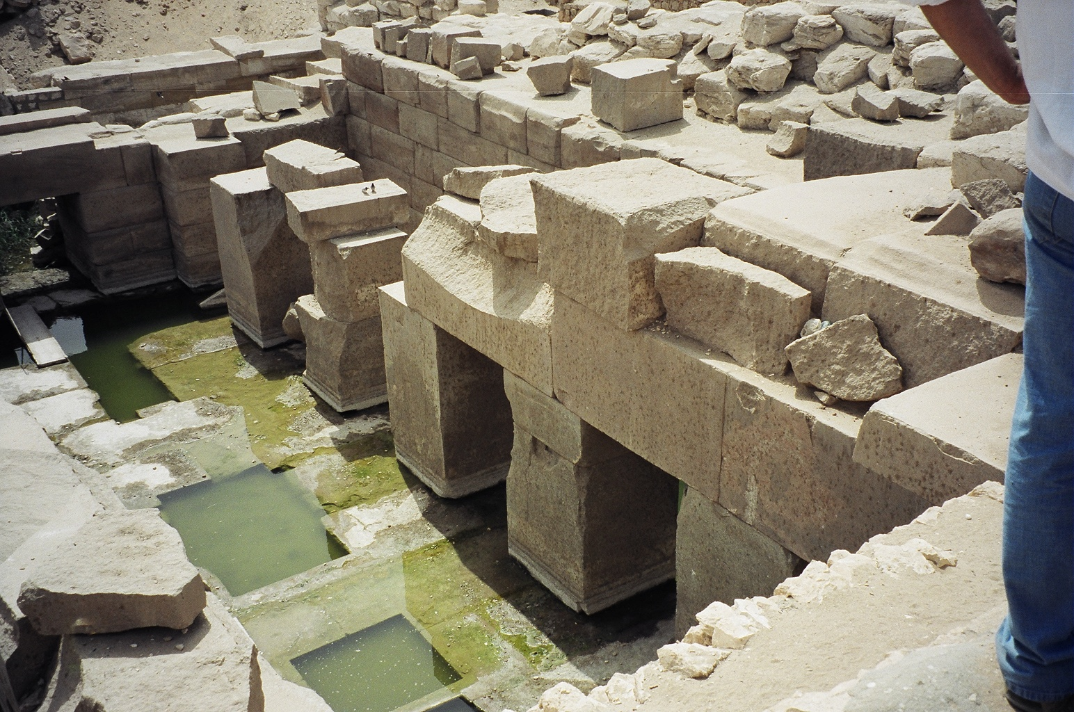 English The Osireion, located in Abydos. Portugués: O Osireion, localizado em Abidos.